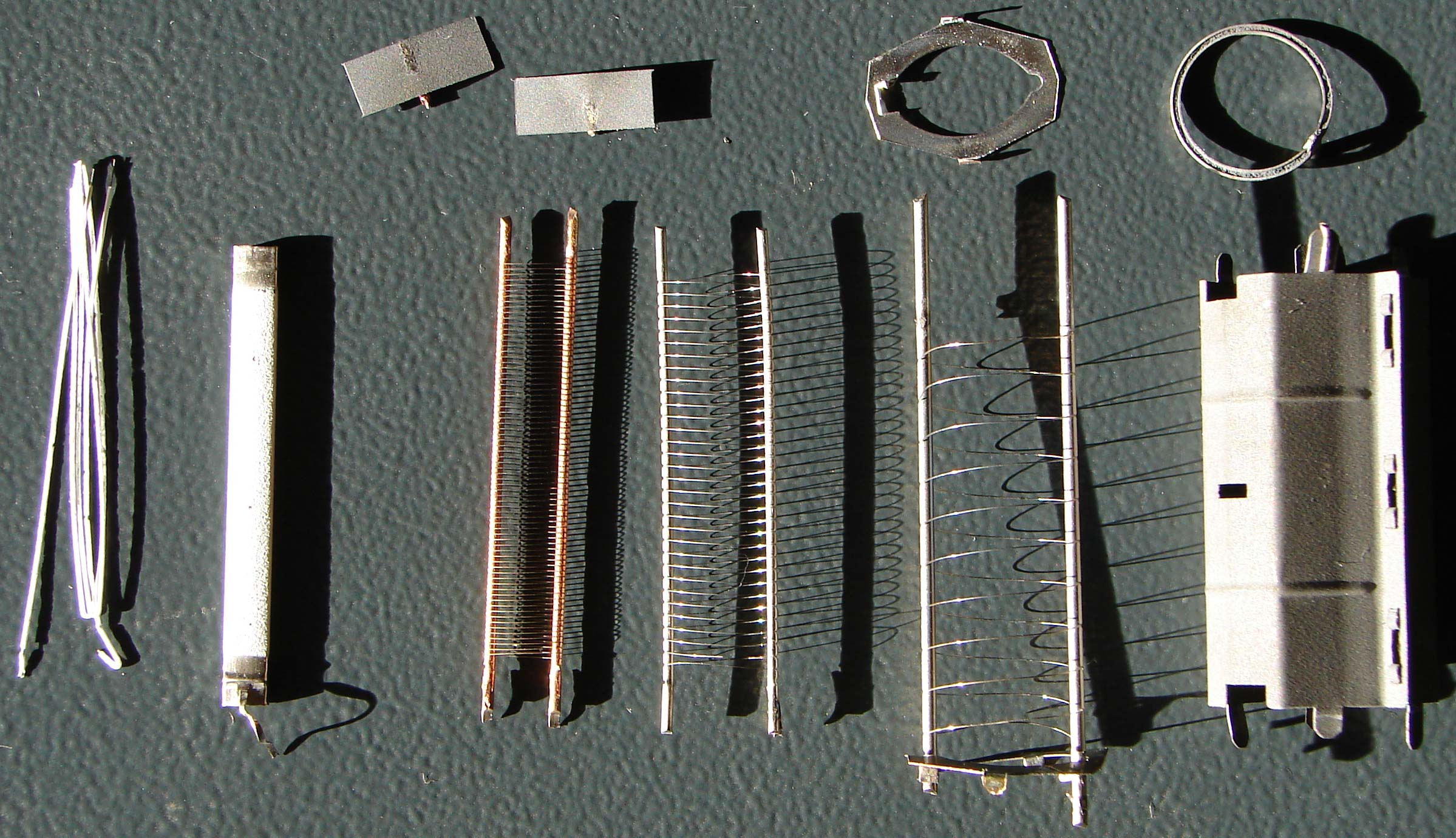 An EL84 vacuum tube disassembled into individual parts